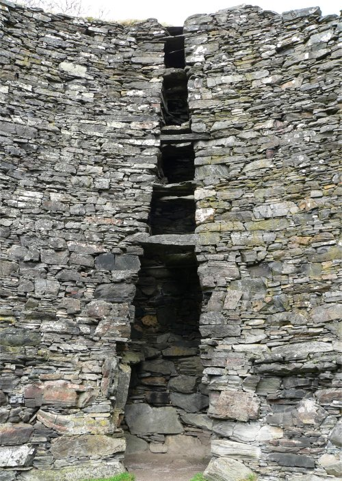 Dun Troddan, one of the Glenelg Brochs in Scotland